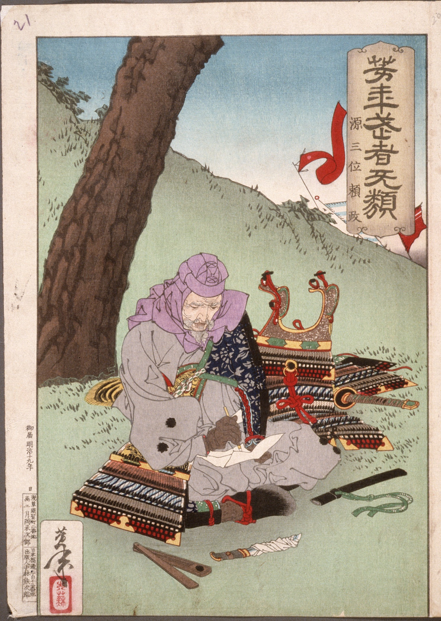 Japan, 1883, 12th month Series: Yoshitoshi's Warriors Trembling with Courage Prints; woodcuts Color woodblock print Herbert R. Cole Collection (M.84.31.93) Japanese Art 辞世の句を詠む源頼政。「埋木の 花咲くことも なかりしに 身のなる果てぞ 悲しかりける」 Minamoto no Yorimasa (1104-1180) writing his dying poetry in the battle feild. In May 1180, Prince Mochihito and Yorimasa raised an army to overthrow the Taira clan but they were defeated.